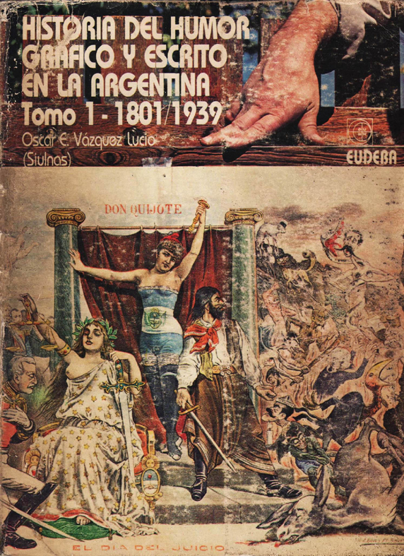 Portada del primer tomo de la Historia del humor gráfico y escrito en la Argentina, por Siulnas.